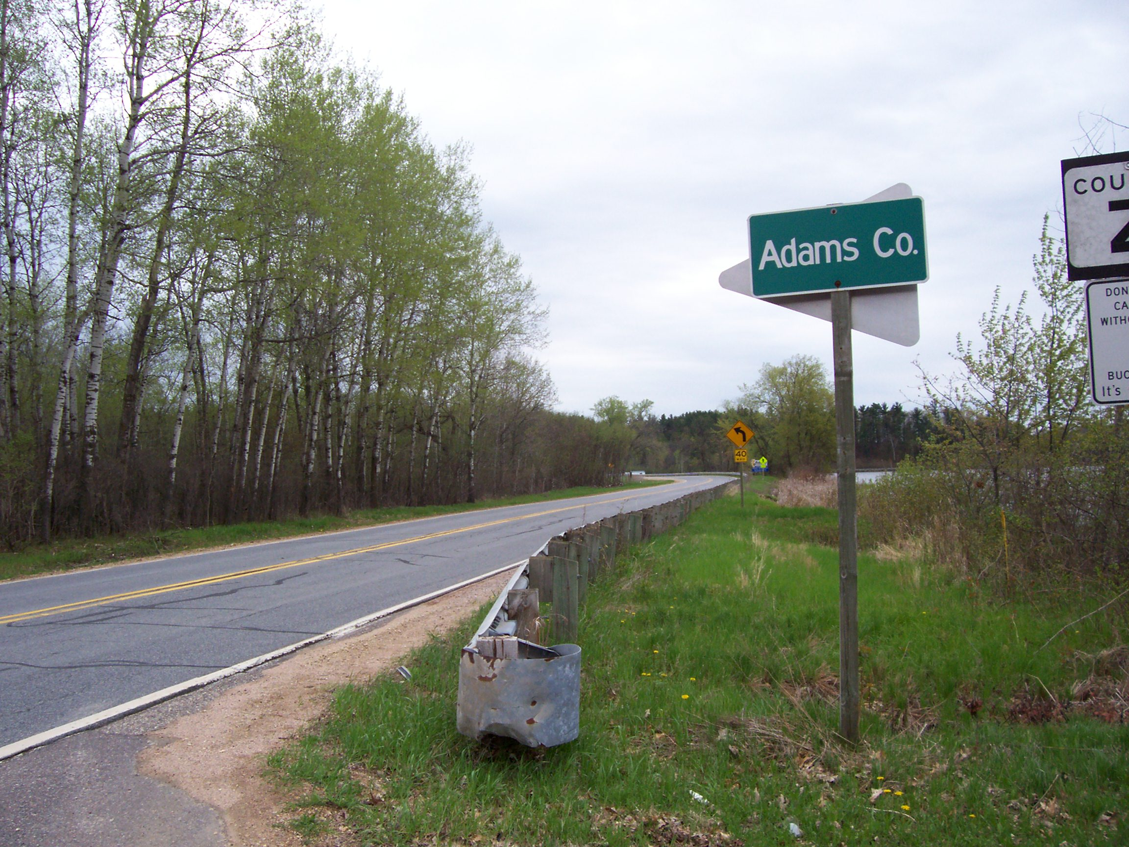 Looking south at the sign marking Adams County, Wisconsin, USA on County Highway Z along the Wisconsin River. The Wisconsin River is visible along the right side of the image.